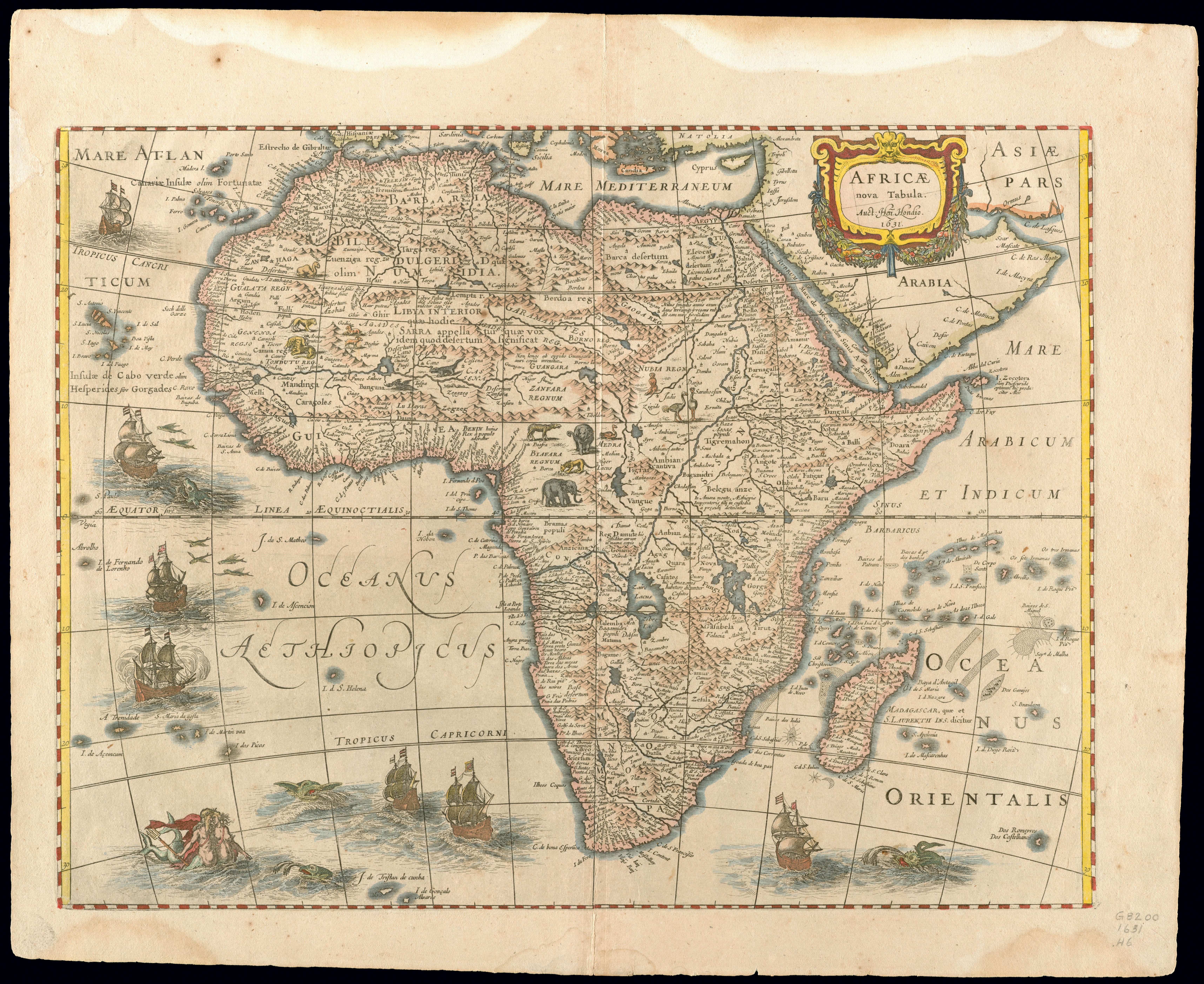 Africæ nova tabula Nouvelle Afrique Relief shown pictorially. Decorated with sailing ships, fish and other animals. Verso pages numbered 621 and 624. Garson, Y. Africa in Europe's eyes, 24 (Description from: North West University Library)